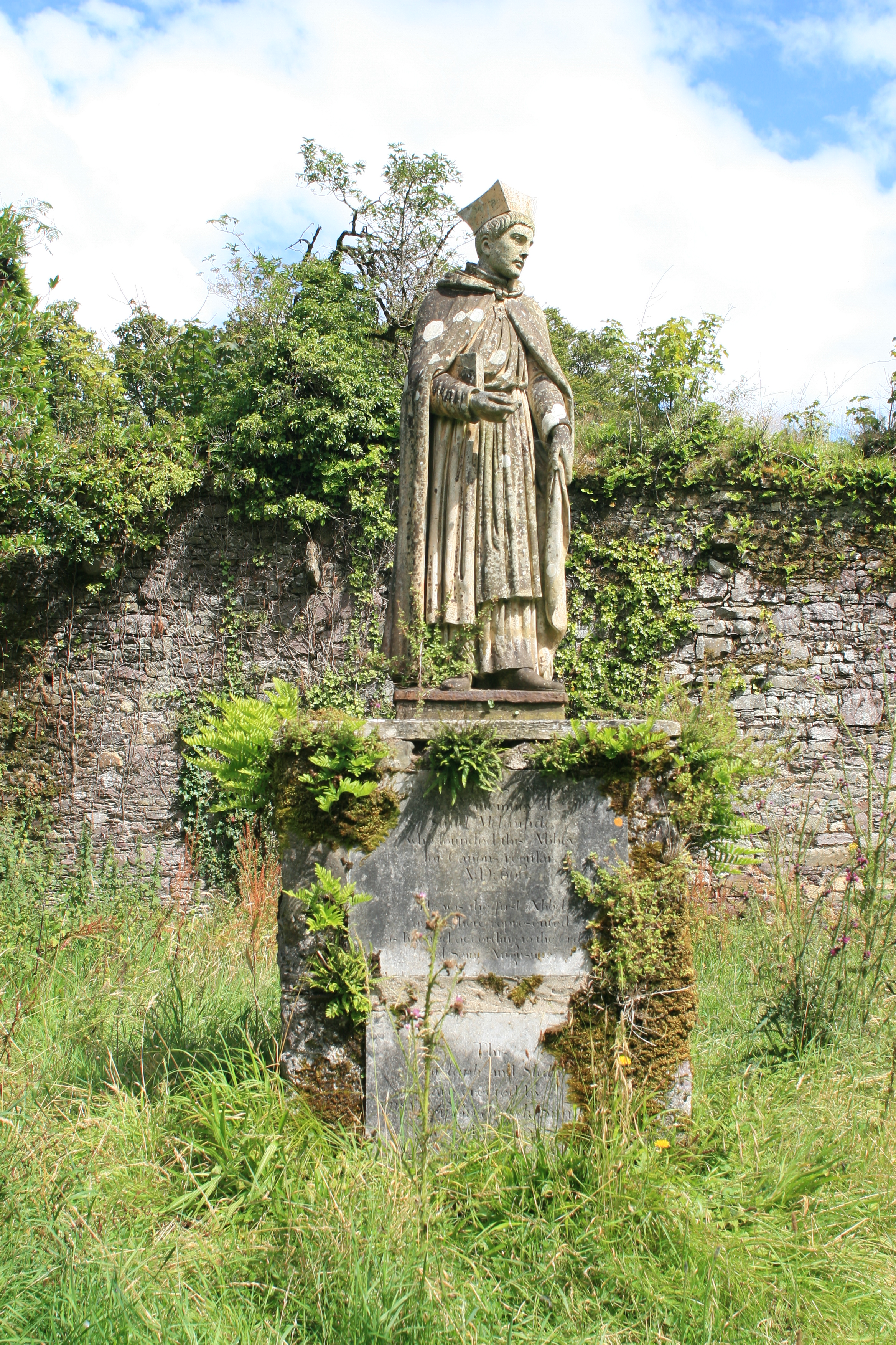 Molana Priory, County Waterford, Ireland Statue of St. Molanfide which was erected at the beginning of the 19th century in the cloister yard of Molana Priory, facing southward. Please note that the habit and the inscription are historically inaccurate as there were no Augustinian Canons Regular in the 6th century. The inscription at the base reads as follows: This statue is erected to the memory of Saint Molanfide who founded this Abbey for Canons regular A.D. 501. He was the first Abbot and is here represented as habited according to the Order of Saint Augustine. This Cenotaph and Statue are erected by Mrs. Mary Broderick Smyth A.D. 1820